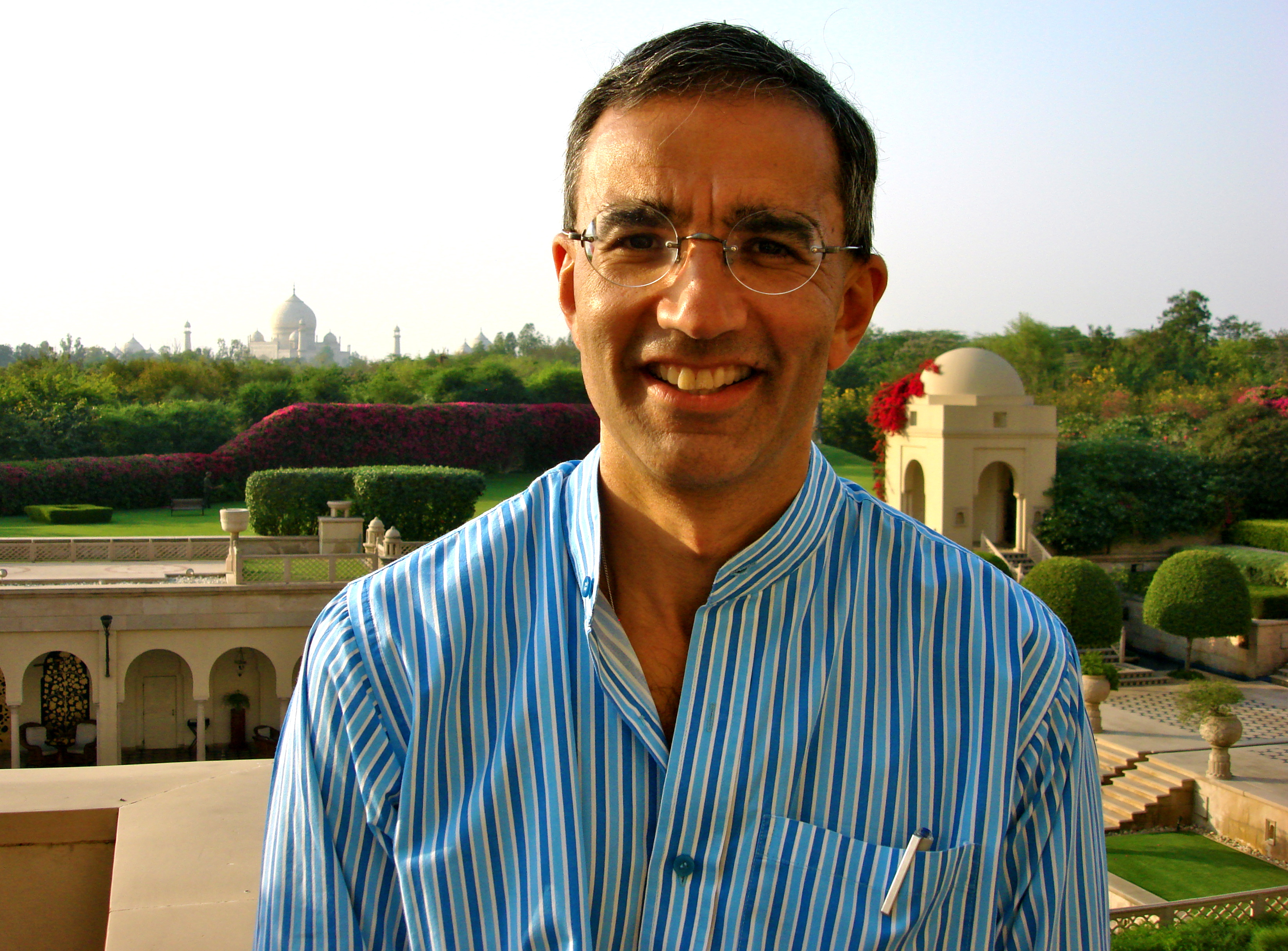 Photo of Raj Bhala